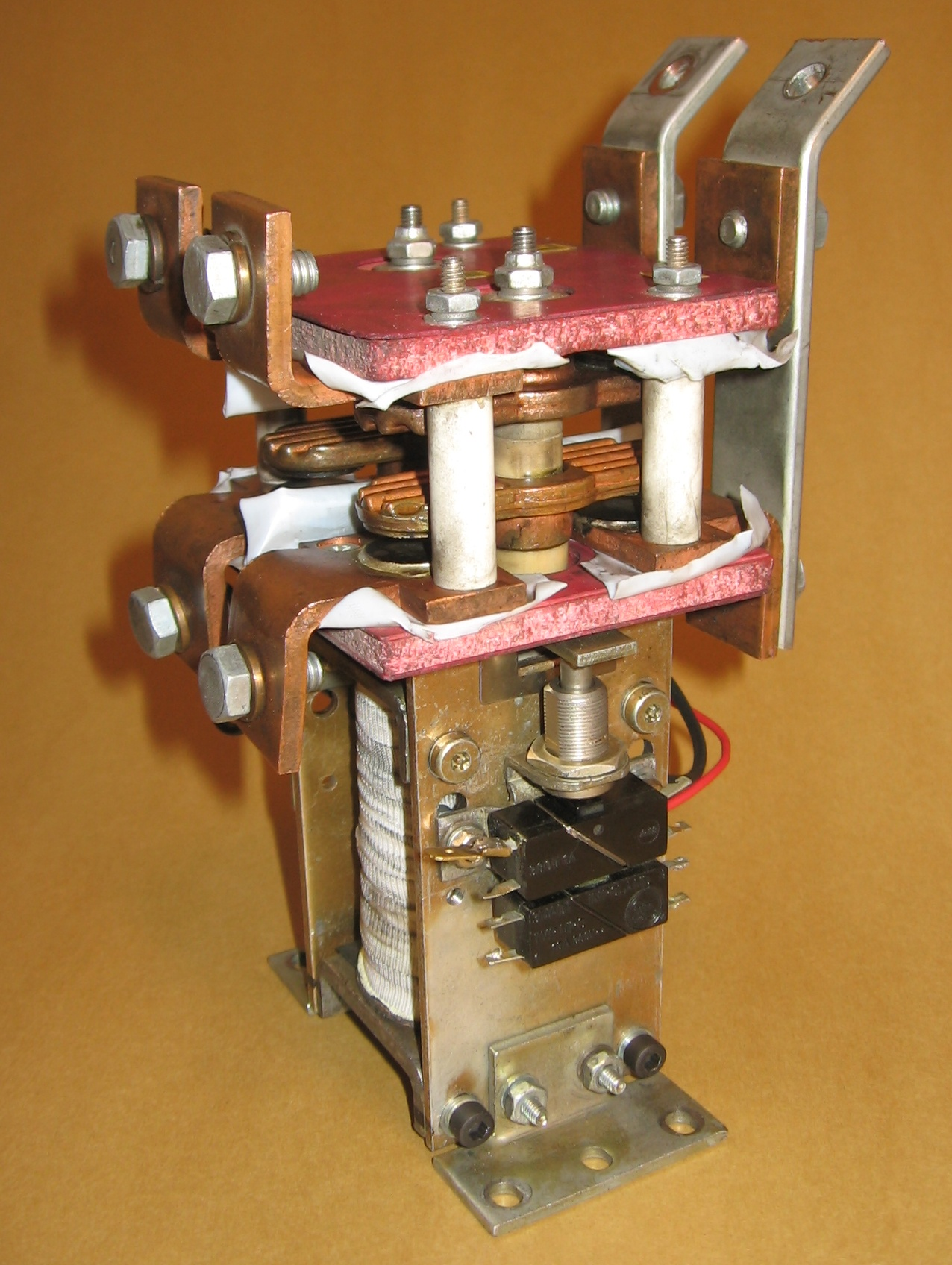 Industrial electromagnetic contactor